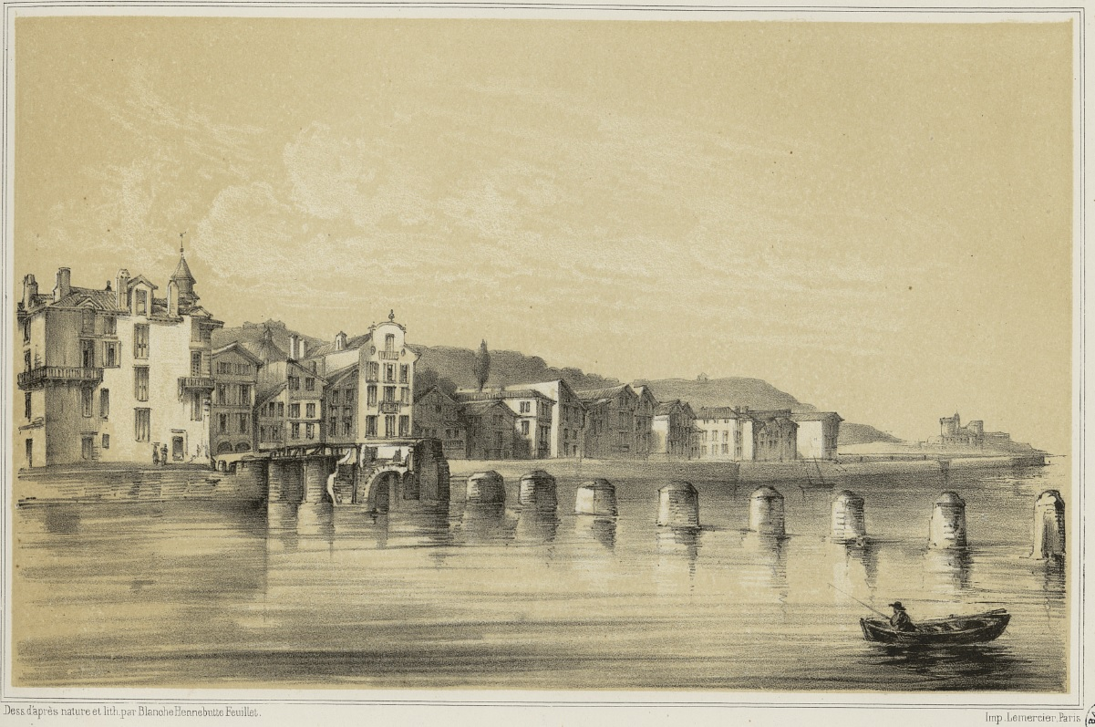 View of Ciboure drawn from the customs garden. Ruins of the old bridge as they were in 1852.